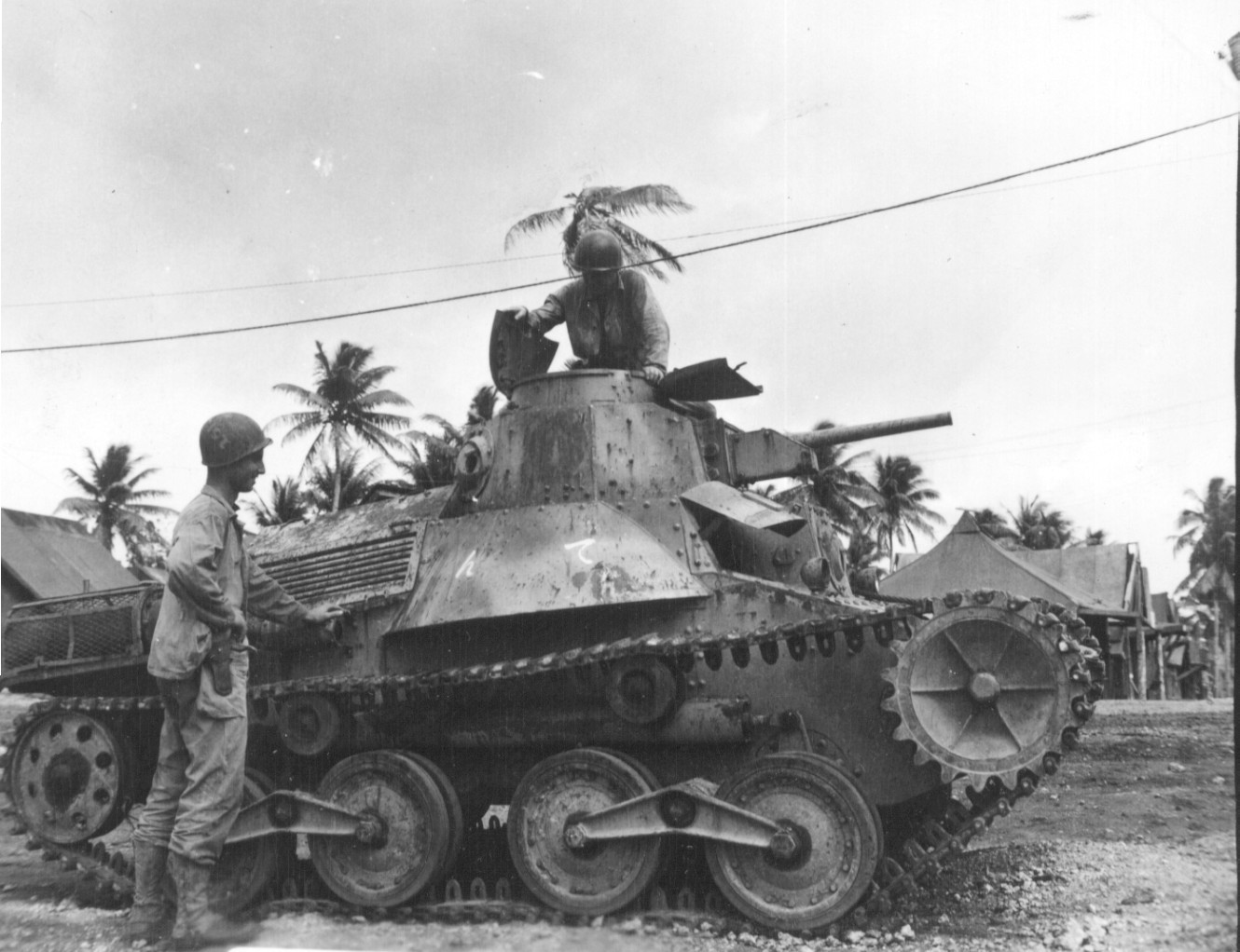 Type 95 Light Tank of the 26th Tank Regiment captured on Iwo Jima